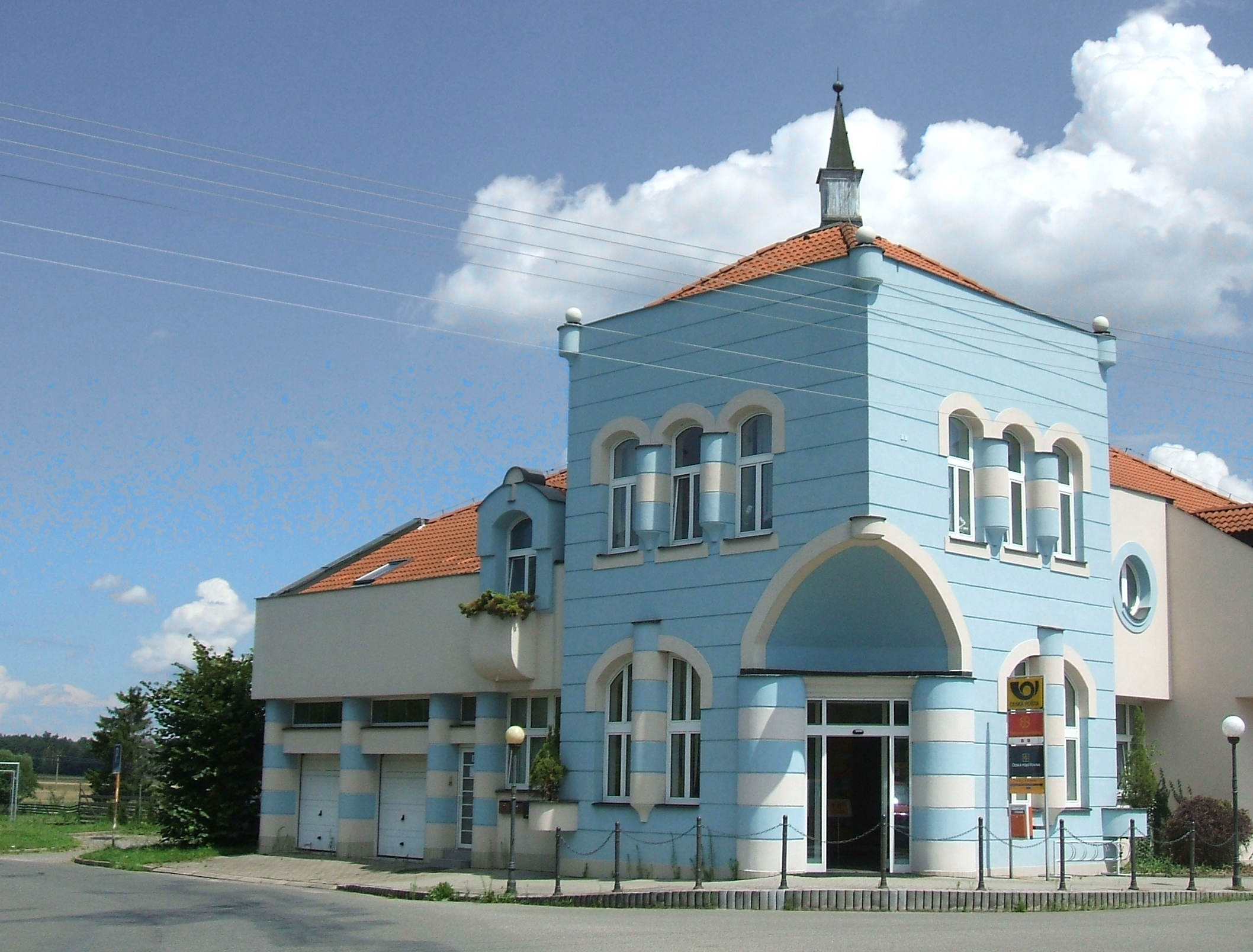 Staré Hradiště, Pardubice District, Czech Republic. Česky: Staré Hradiště, okrese Pardubice Post office in Staré Hradiště